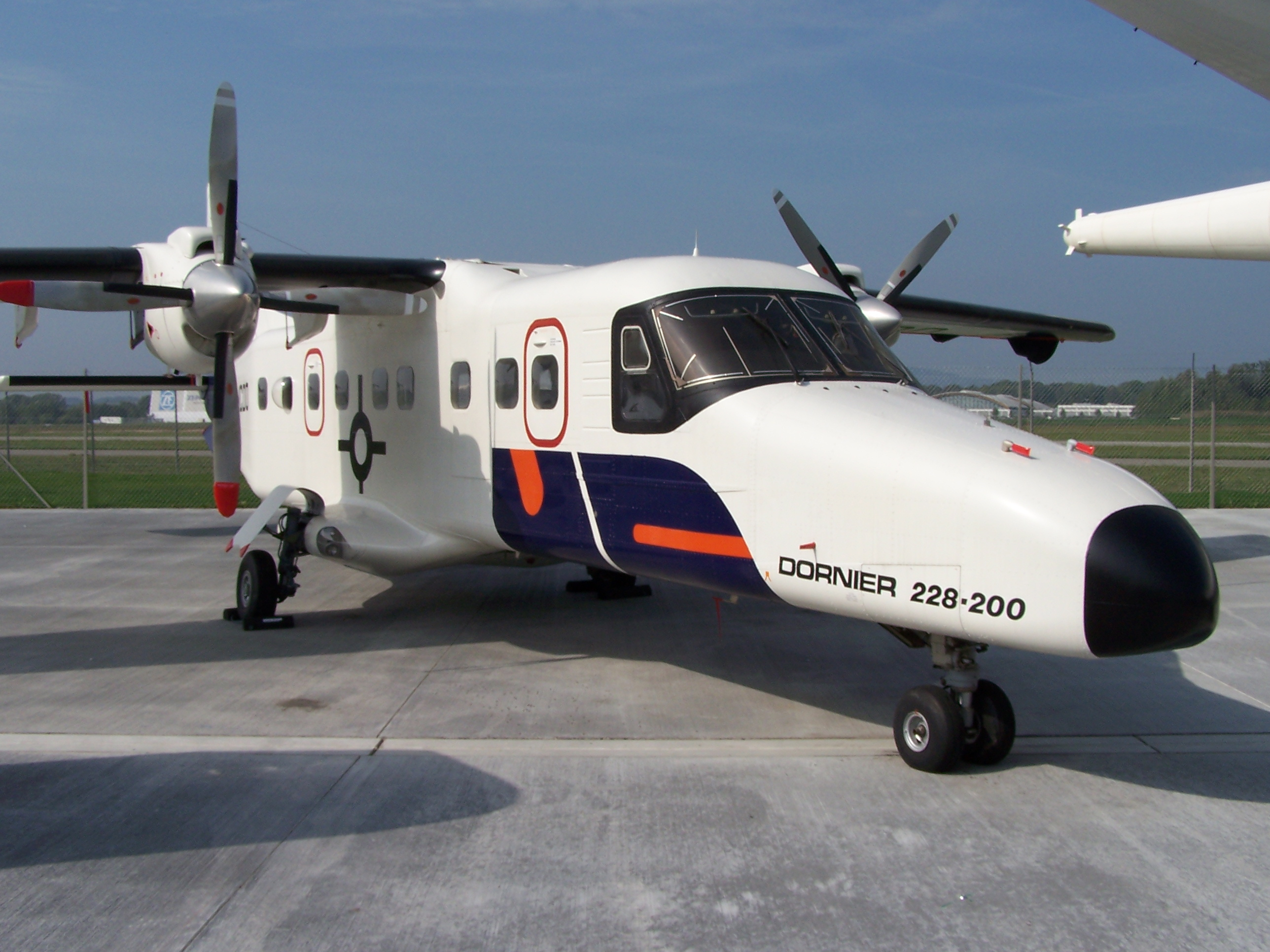 Dornier Museum 2009-09-27